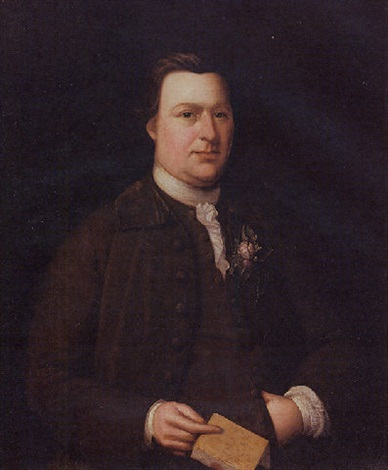 Nathaniel Hone the Elder (Irish, 1718–1784)Title: Portrait of Button Gwinnett, signer of the Declaration of Independence from GeorgiaMedium: Oil on Canvas Size: 84.5 x 73.7 cm. (33.3 x 29 in.)